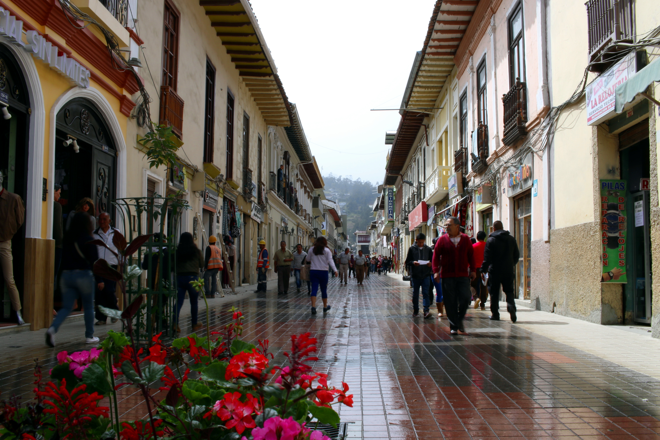 A pedestrian path connects the main square of Loja, in the south of Ecuador, with the town's central market.